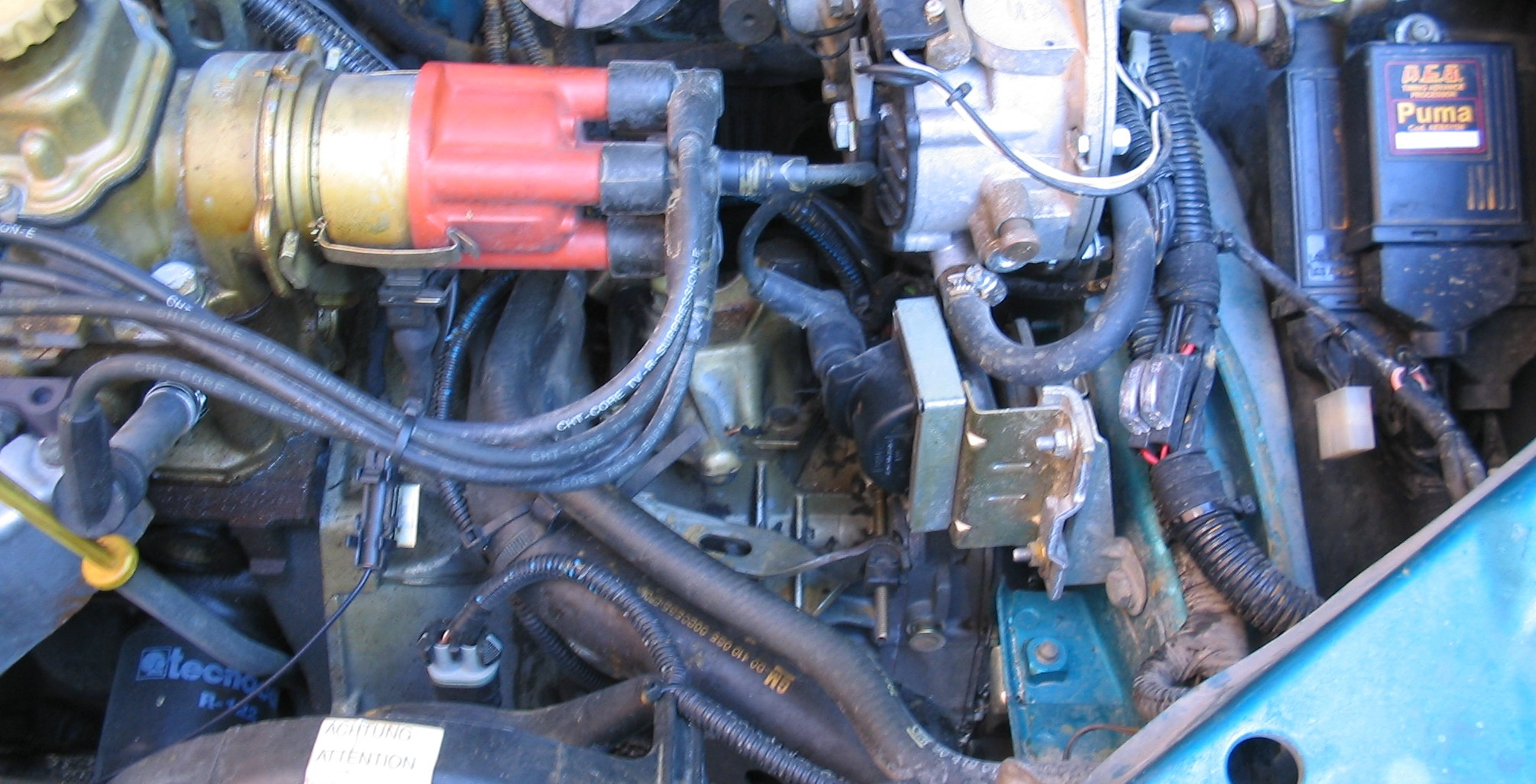 Installation of electronic ignition IDI of an automobile, characterized by the use of the distributor (not the spinterogeno) and for the two units because of the dual power, gasoline and methane